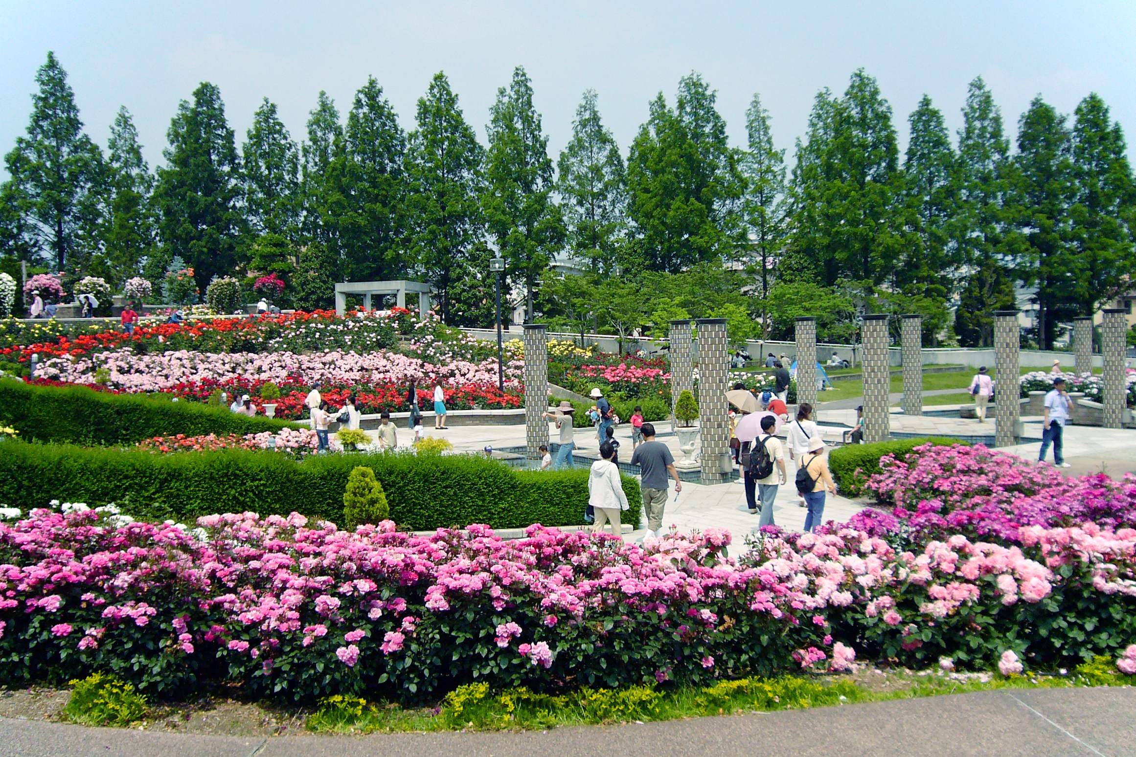 Aramaki rose park in Itami, Hyogo prefecture, Japan